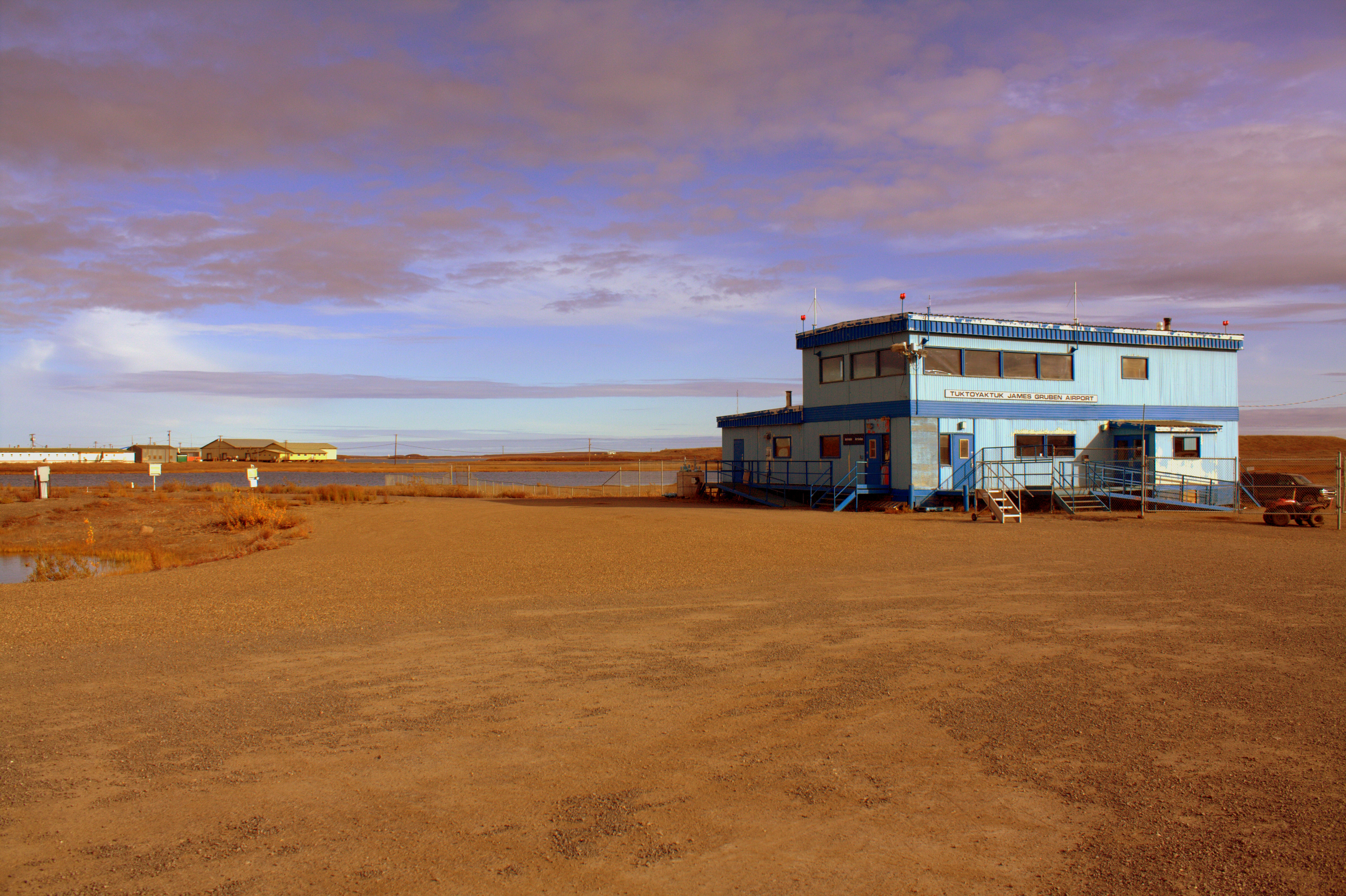 The terminal building at Tuktoyaktuk James Gruben Airport